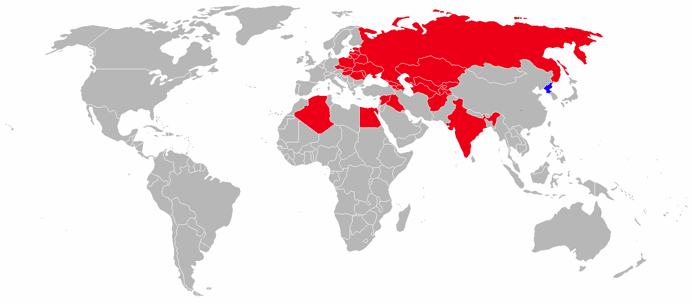 World map of Sukhoi Su-7 operators